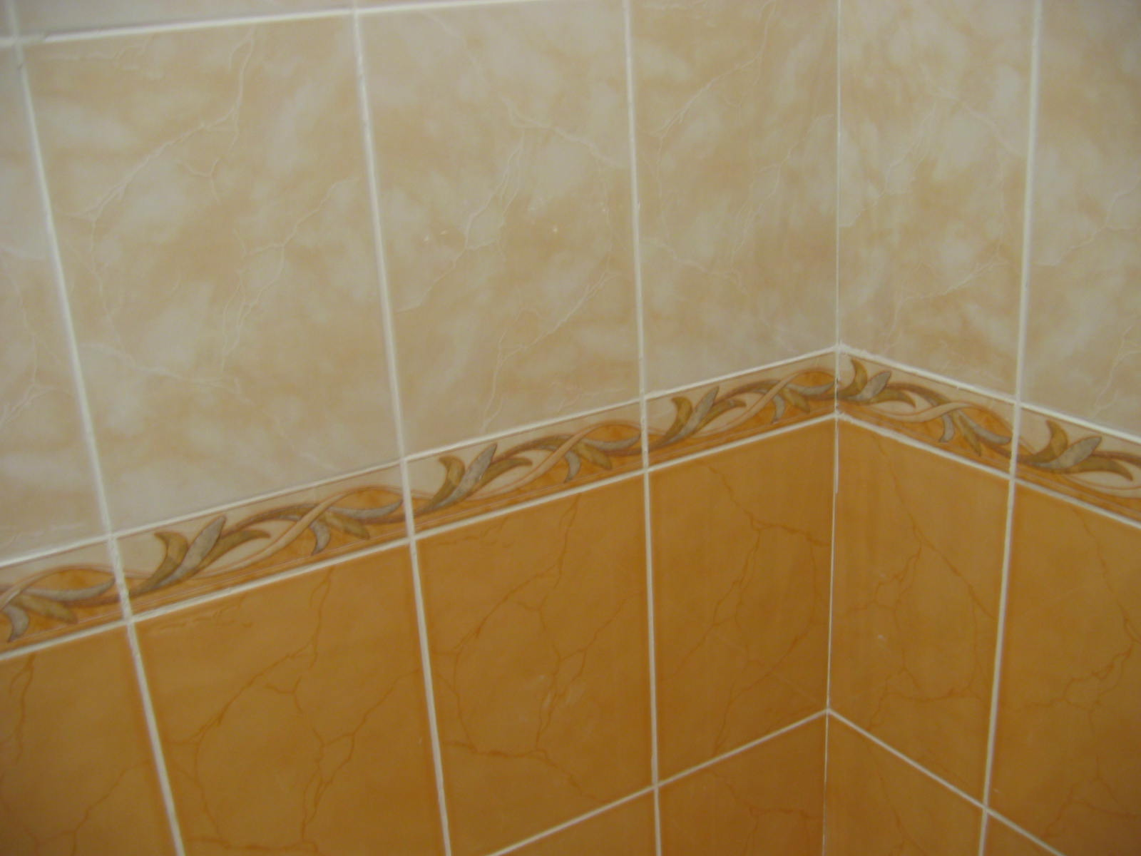 Wall tiles